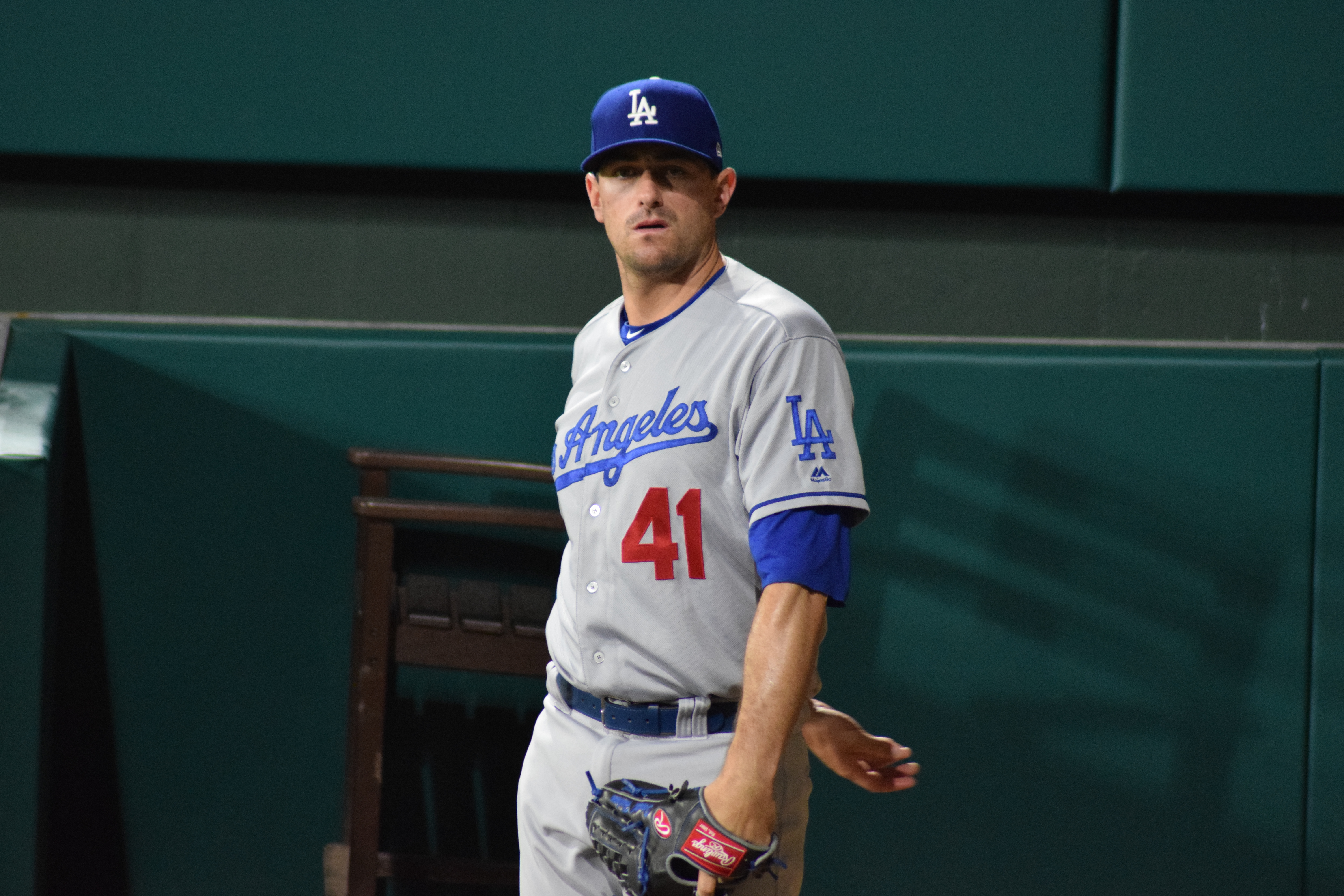 Los Angeles Dodgers relief pitcher Daniel Hudson